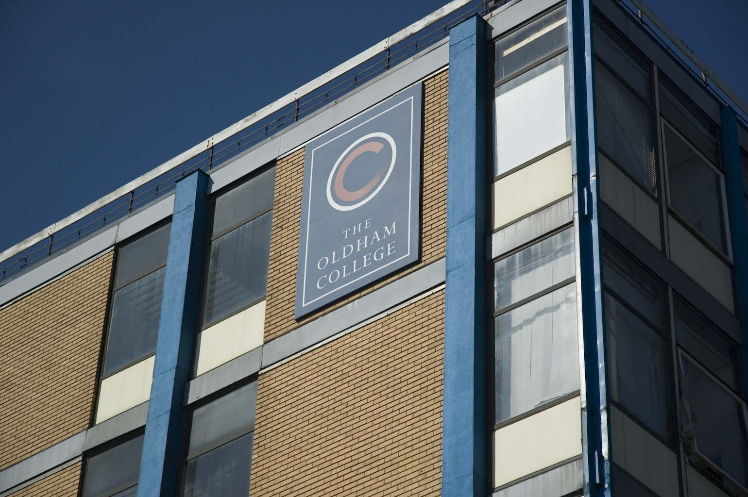 Photographer: Keith Etherington